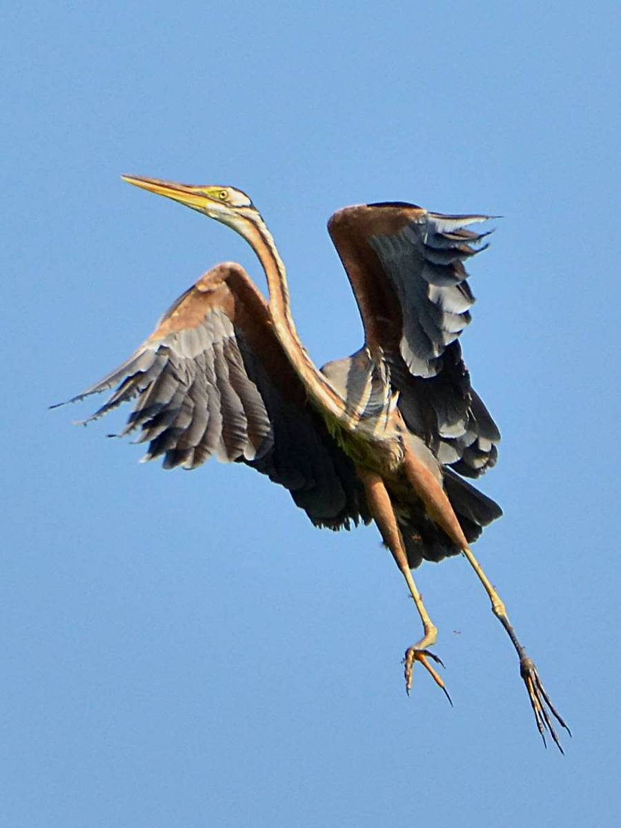 Purple Heron, record in University of Sam Ratulangi Urban Environment, North SulawesiBahasa Indonesia: Cangak Merah, terdata di Kampus Universitas Sam Ratulangi, Sulawesi Utara